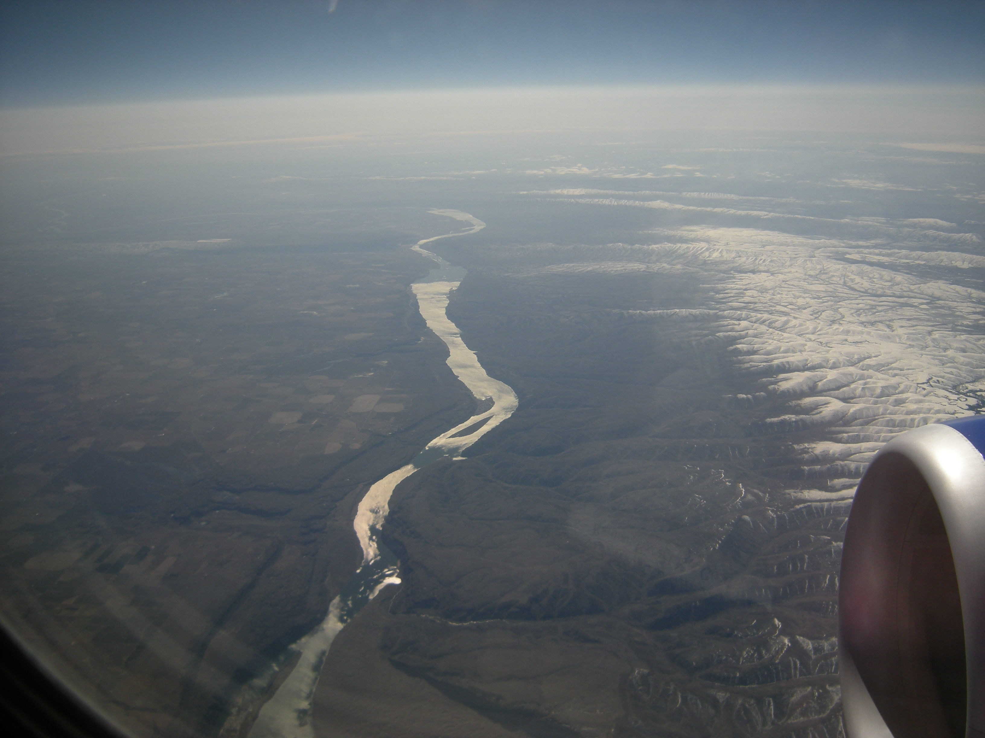 Aerial photo of Columbia River in Central Washington State, USA. View is looking roughly south as the plane flies just north of Trinidad, Washington. The angle of the photo means that you can't see the riverbend near Trinidad (for which see File:Aerial view of Columbia River in Central Washington 02.jpg or File:Aerial view of Columbia River in Central Washington 02A.jpg).